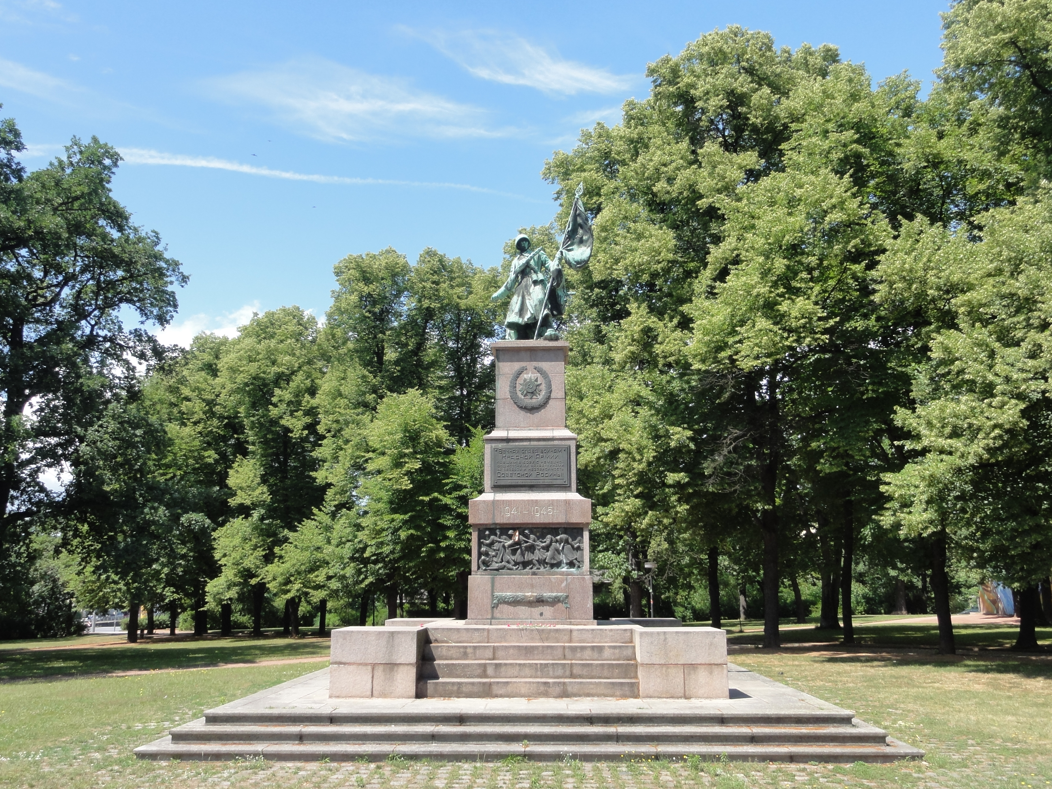 The Soviet victory monument of the 5th Tank Guards Army of the Red Army.